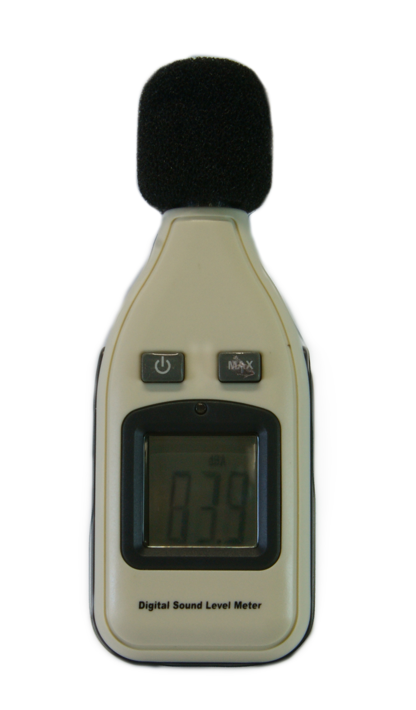 Sound level meter